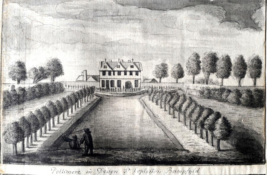 Poltimore House, Devon, drawing by Edmund Prideaux of Prideaux Place, Padstow, Cornwall inscribed: Poltimore in Devon, Sir Copleston Bampfyld. Sir Copleston Bampfield, 2nd Baronet, inherited Poltimore on the death of his father in 1650 and died in 1691.